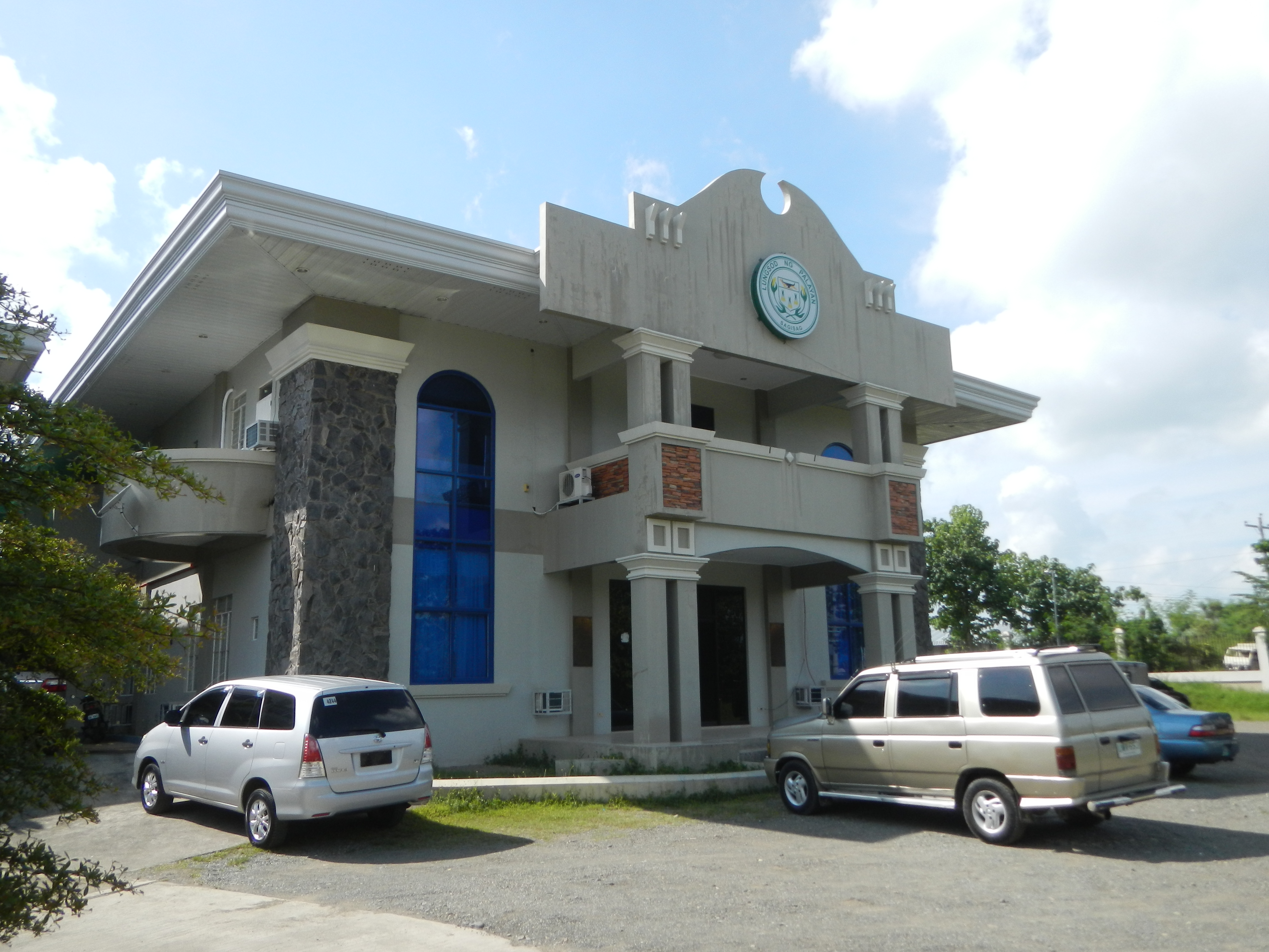 Palayan City Hall, Nueva Ecija - City Proper, 2015 version, from blue, it is now painted cream, beside Nueva Ecija University of Science and Technology - Palayan City Campus in Barangay Atate, and Singalat, Palayan City, Nueva Ecija along the Nueva Ecija-Aurora Road (Cabanatuan-Palayan City section).